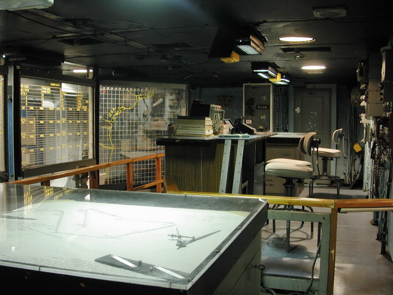 On the 02 level, just below the flight deck is the Combat Information Center (CIC) which collected and evaluated all information on the status of the USS LEXINGTON, other friendly ships, and enemy forces. The CIC directed the ship's performance in close coordination with the air operations center (AirOps) and the carrier air traffic control center (CATCC) next door.